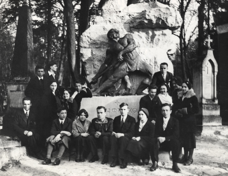 Jacques Hnizdovsky sitting in front of Ivan Franko's Memorial at the Lychakivsky Historical Cemetery in Lviv, Ukraine (bottom row left, looking towards his left)